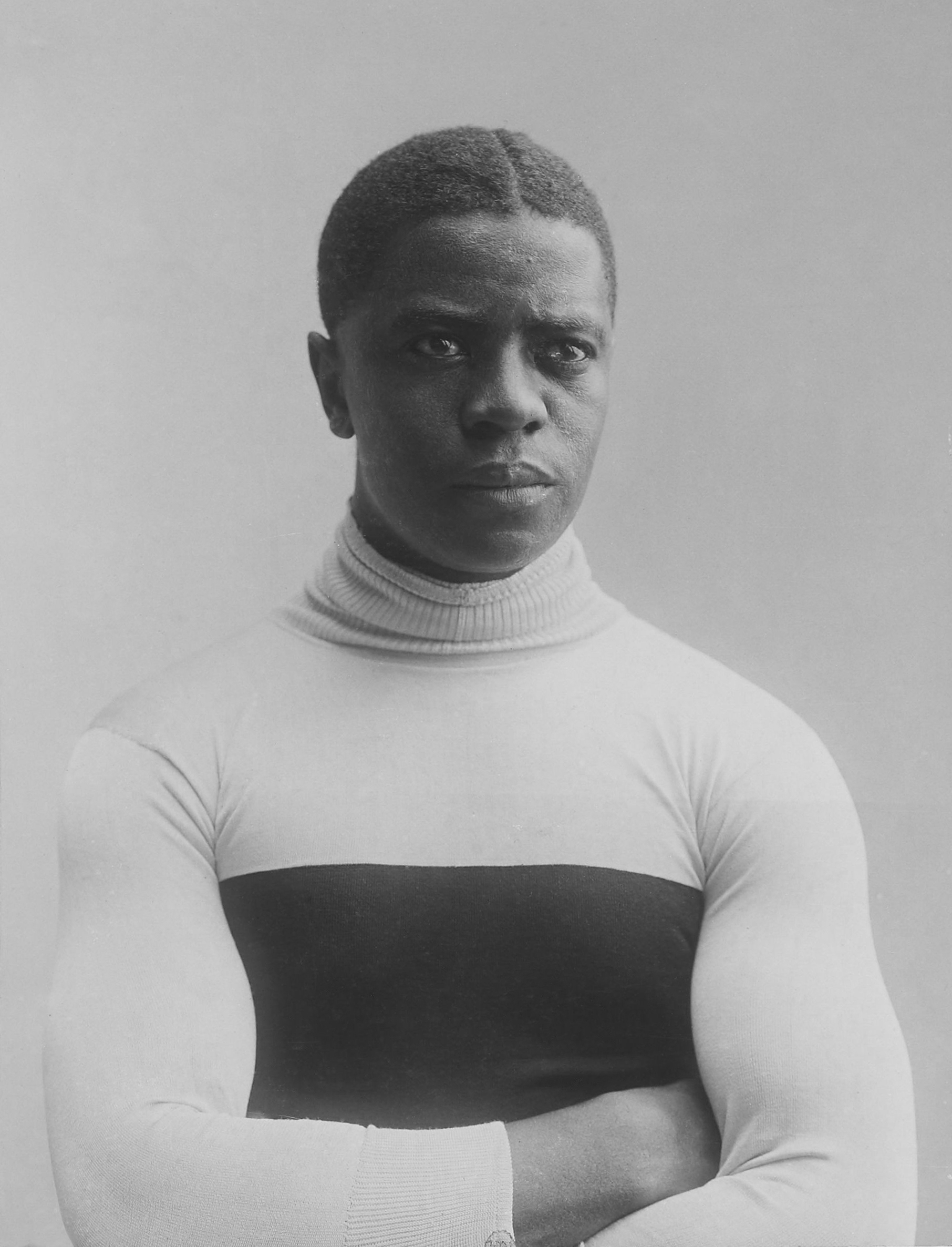 [Collection Jules Beau. Photographie sportive] : T. 33. Années 1906 et 1907 / Jules Beau